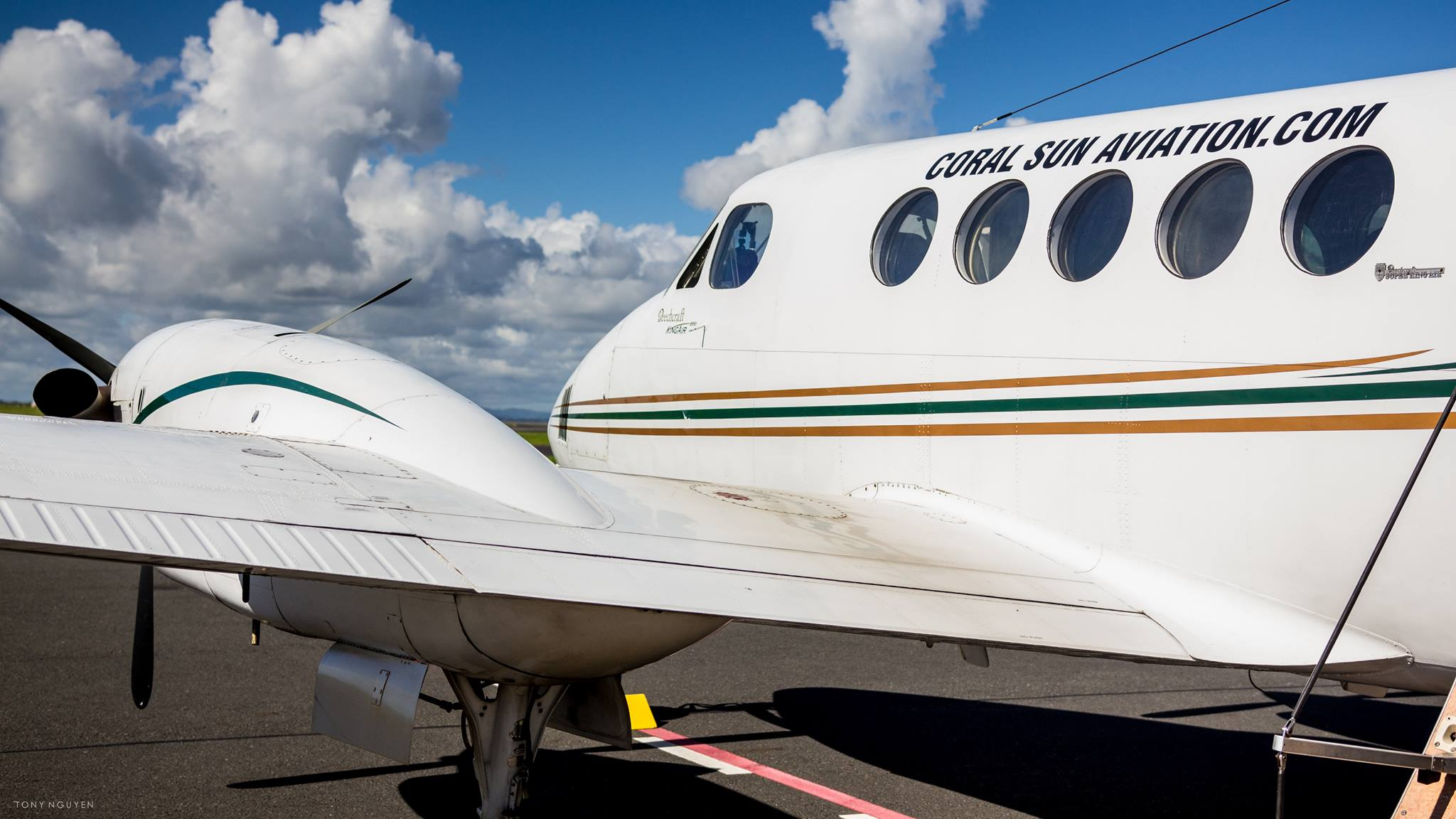 The Beechcraft King Air from Coral Sun Airways